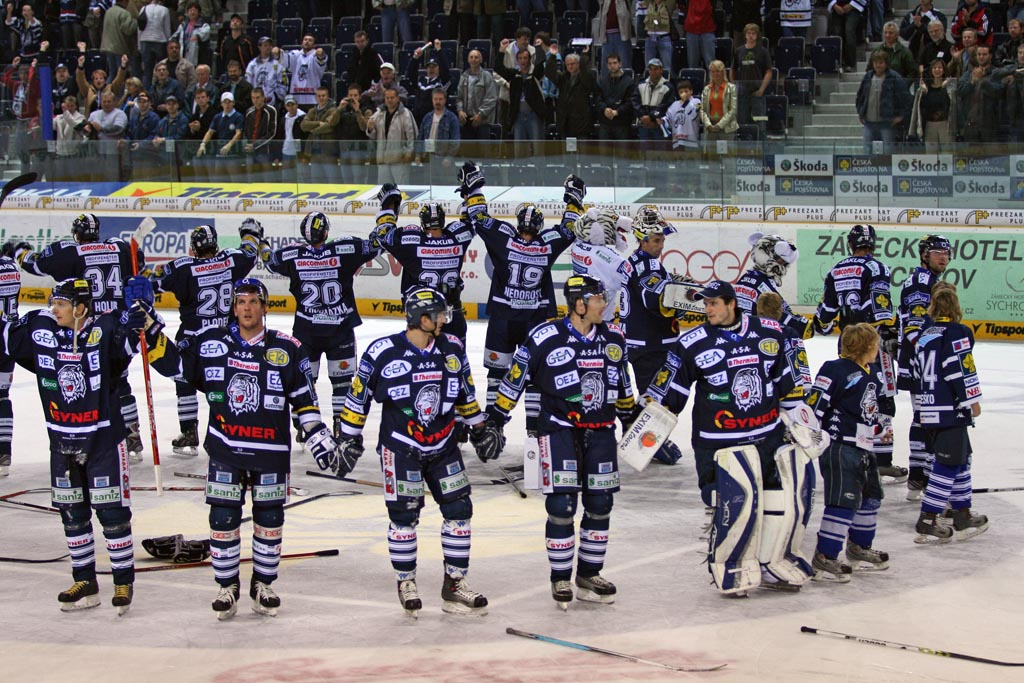 Players of Bílí Tygři Liberec after beating HC Slavia Praha with 5:2 (0:1,1:1,4:0) in Oct. 2007